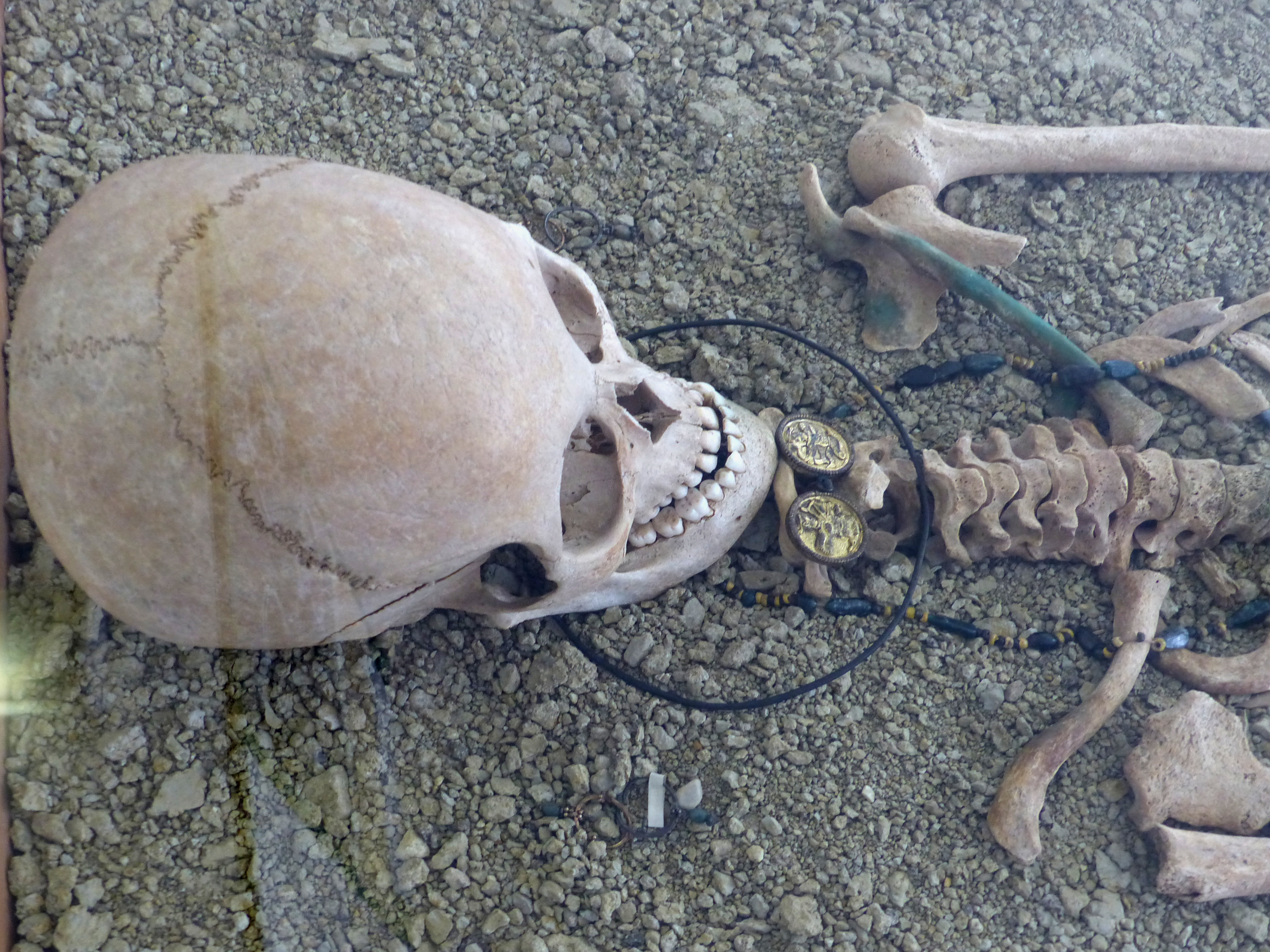 Mödling ( Lower Austria ). District museum - Grave of an Awarian girl from Mödling ( Goldene Stiege )